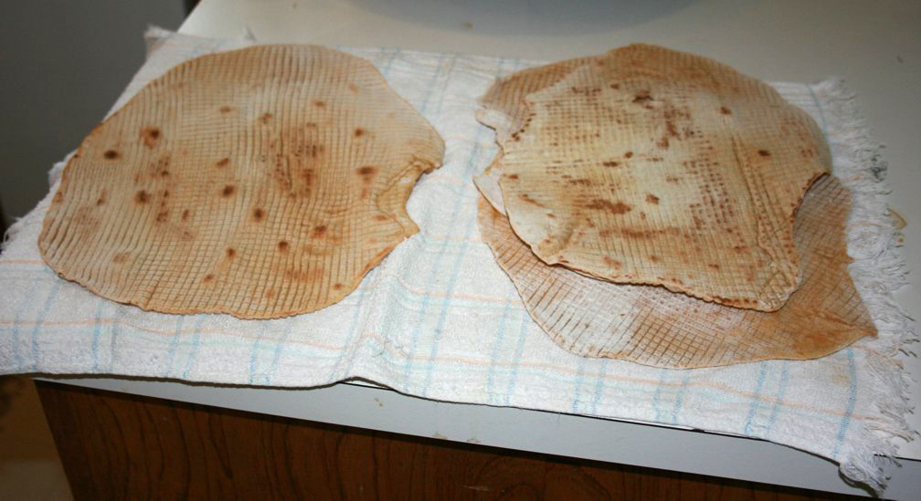 I took this picture myself, in my house, from a lefse I cooked myself.